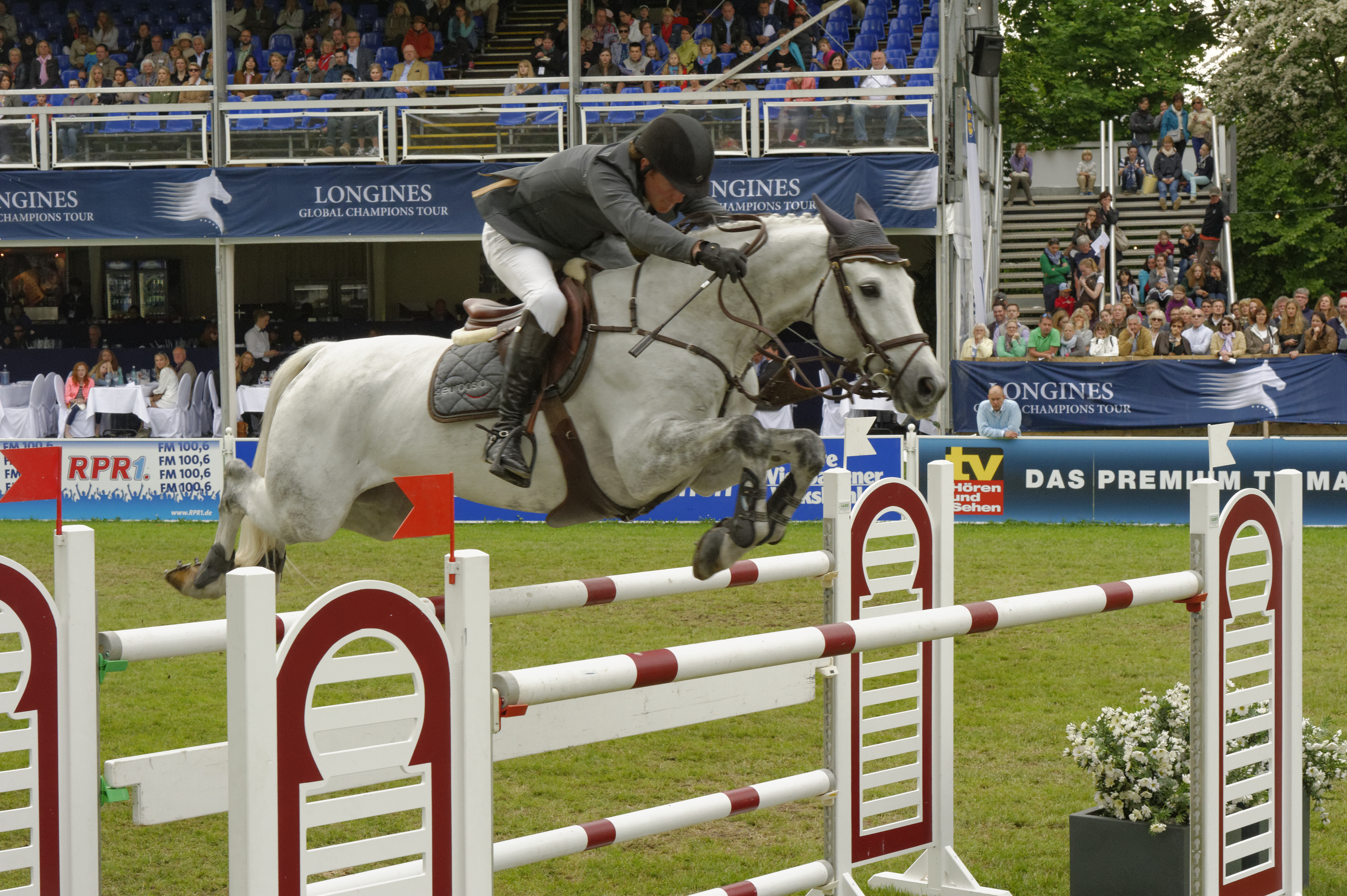 Internationales Pfingstturnier Wiesbaden 2013 The making of this document was supported by the Community-Budget of Wikimedia Germany.